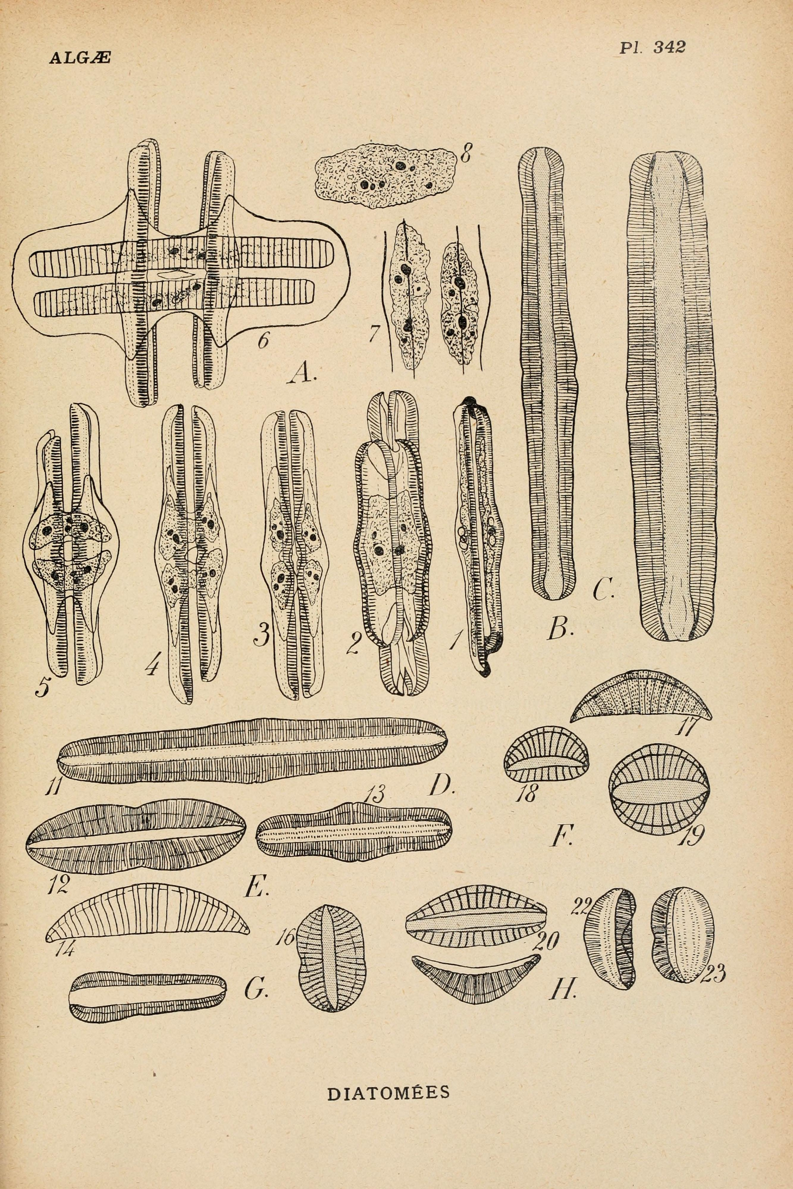 Title: Album général des diatomées marines, d'eau douce ou fossiles : album représentant tous les genres de diatomées et leurs principales espèces Year: (190-?) ((190s) Authors: Coupin, Henri, b. 1868 Subjects: Diatoms Publisher: Paris : H. Coupin Text Appearing Before Image: ALGJE PI. 342 Text Appearing After Image: DIATOMÉES